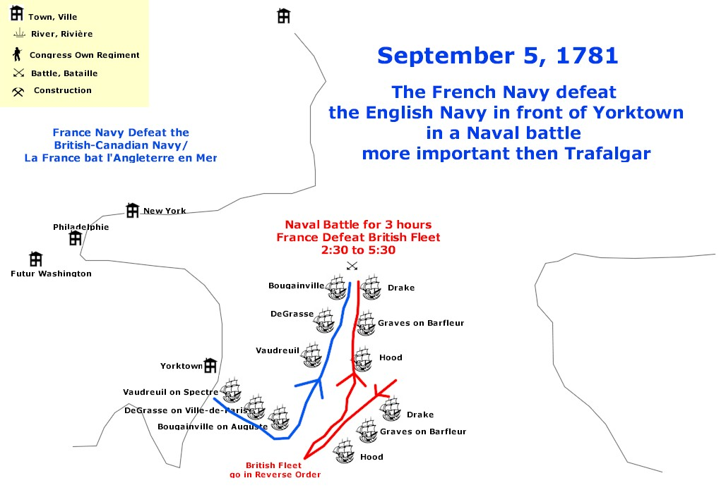 French Victory against the English at the Yorktown Naval Battle